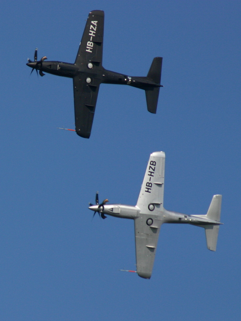 Description: Pilatus PC-21 in formation at the Air Payerne '04 in Payerne, Switzerland Photographer: Daniel Baumgartner Date: 05.09.2004 Source: myself